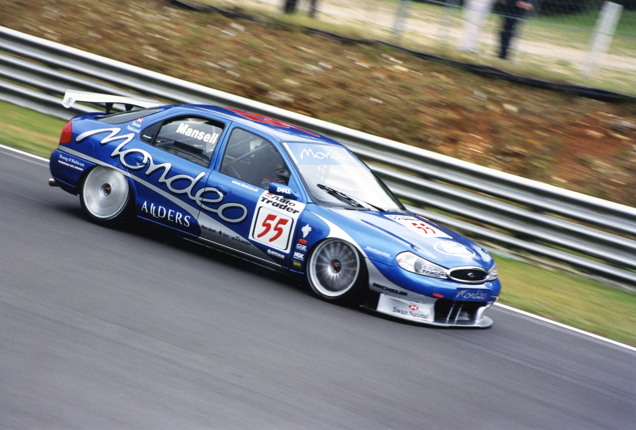 Nigel Mansell during a BTCC Race at Brands Hatch on 30 August 1998